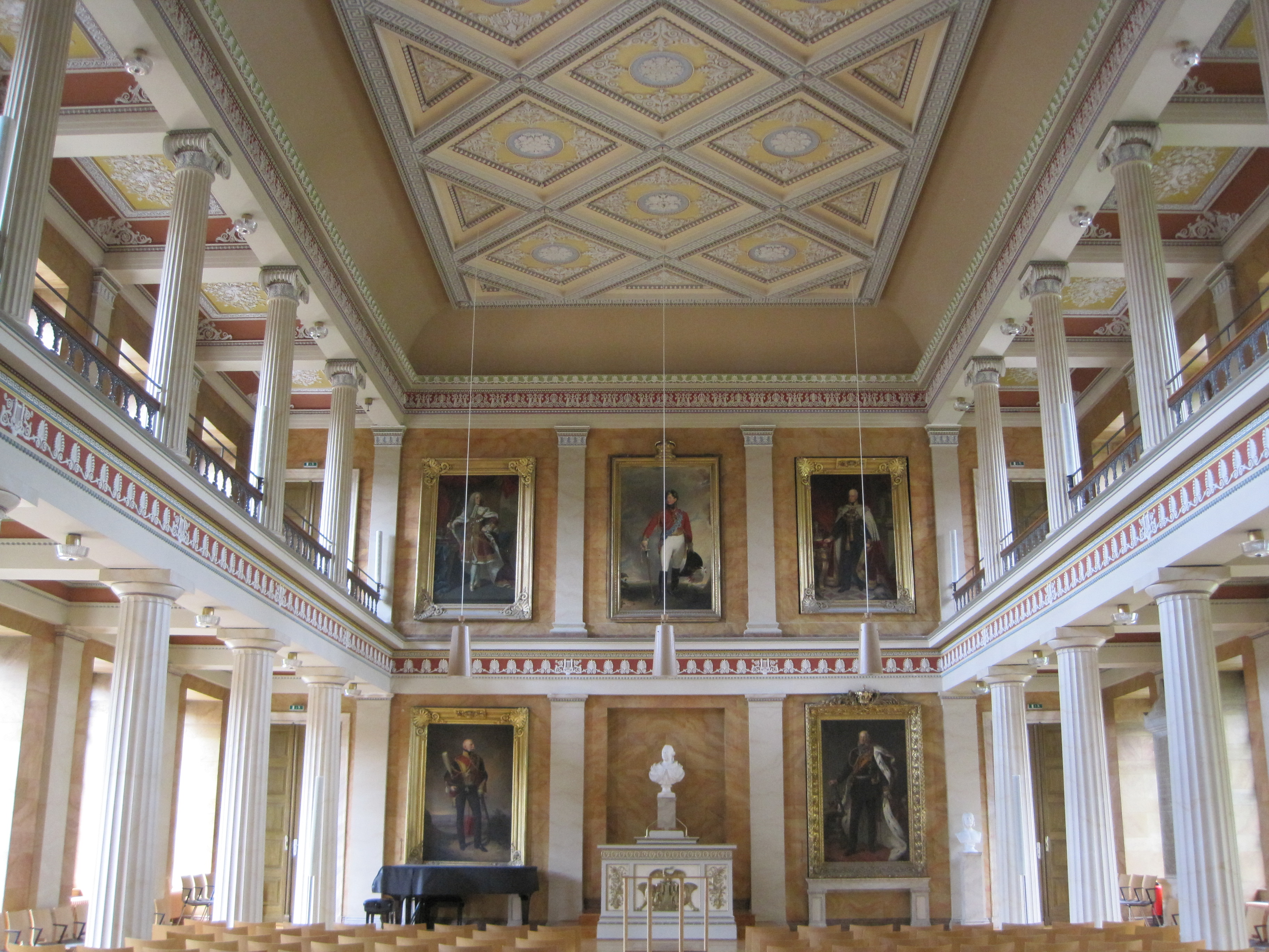 View to Aula, Göttingen, Germany check usage